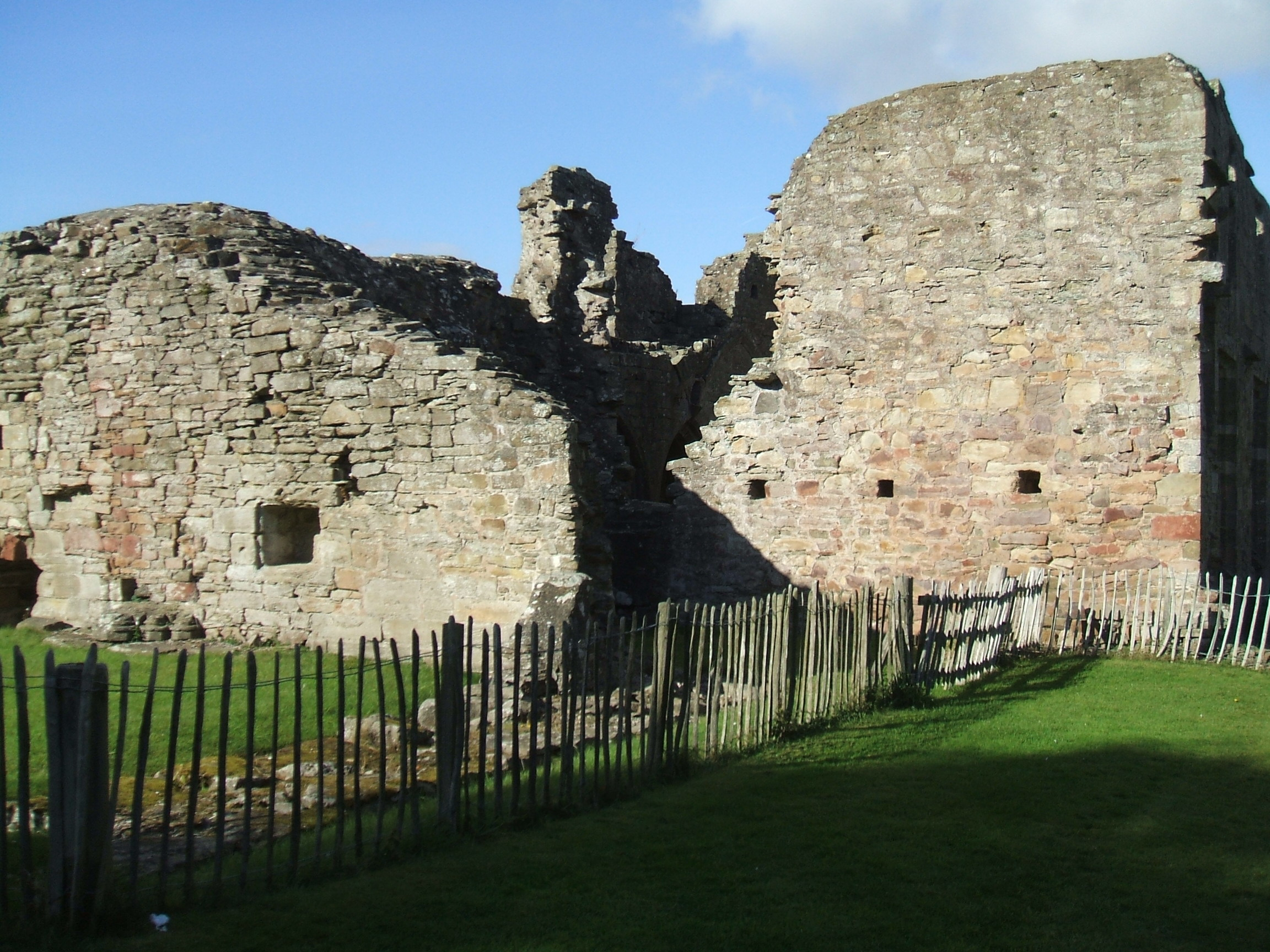 A photograph of Balmerino Abbey in the present day. Taken on the 7th of October 2007; see metadata for more detailed information!